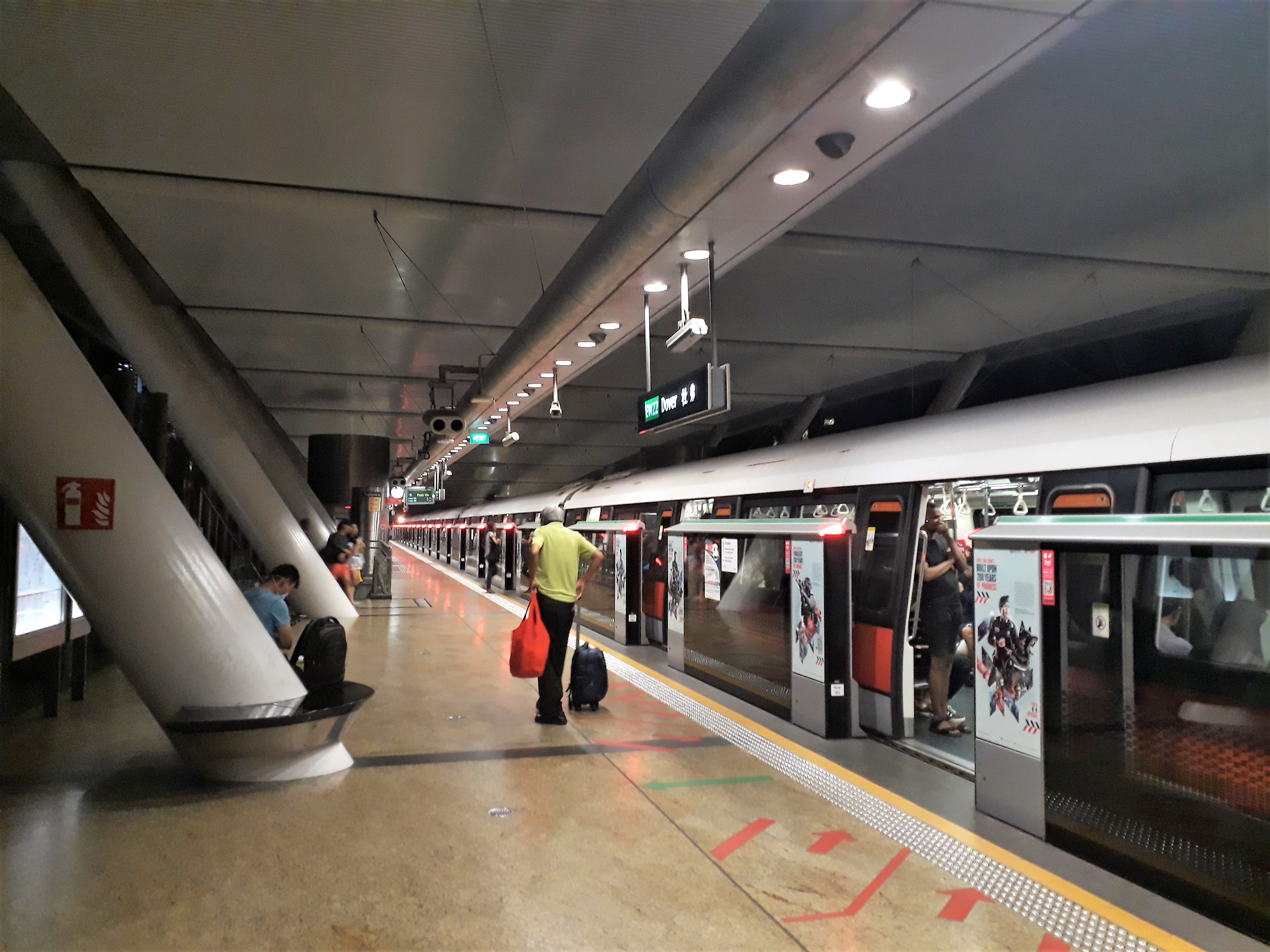 Platform A of Dover station